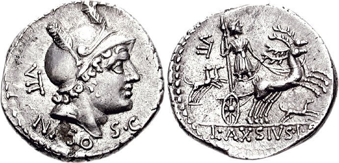 Lucius Axius L.f. Naso 70 BC. AR Denarius (3.96 g, 8h) Rome mint. Obverse: NASO, head of Mars right, wearing helmet with plume on either side; VII behind, S. C below chin. Reverse: Diana driving biga of stags right, holding spear in right hand, reins in left; behind, VII and two dogs running right; dog running right below; L. AXSIVS. L. [F.] in exergue. Crawford 400/1a; Sydenham 794; Kestner 3295 var. (control number); BMCRR Rome 3348-3353 var. (same); Axia 1. EF, small delamination below Mars. Ex Leu 77 (11 May 2000), lot 431.